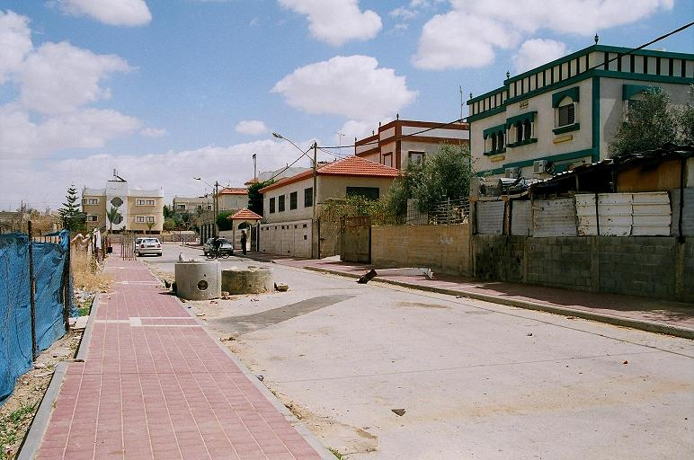 Street in Tel Sheva